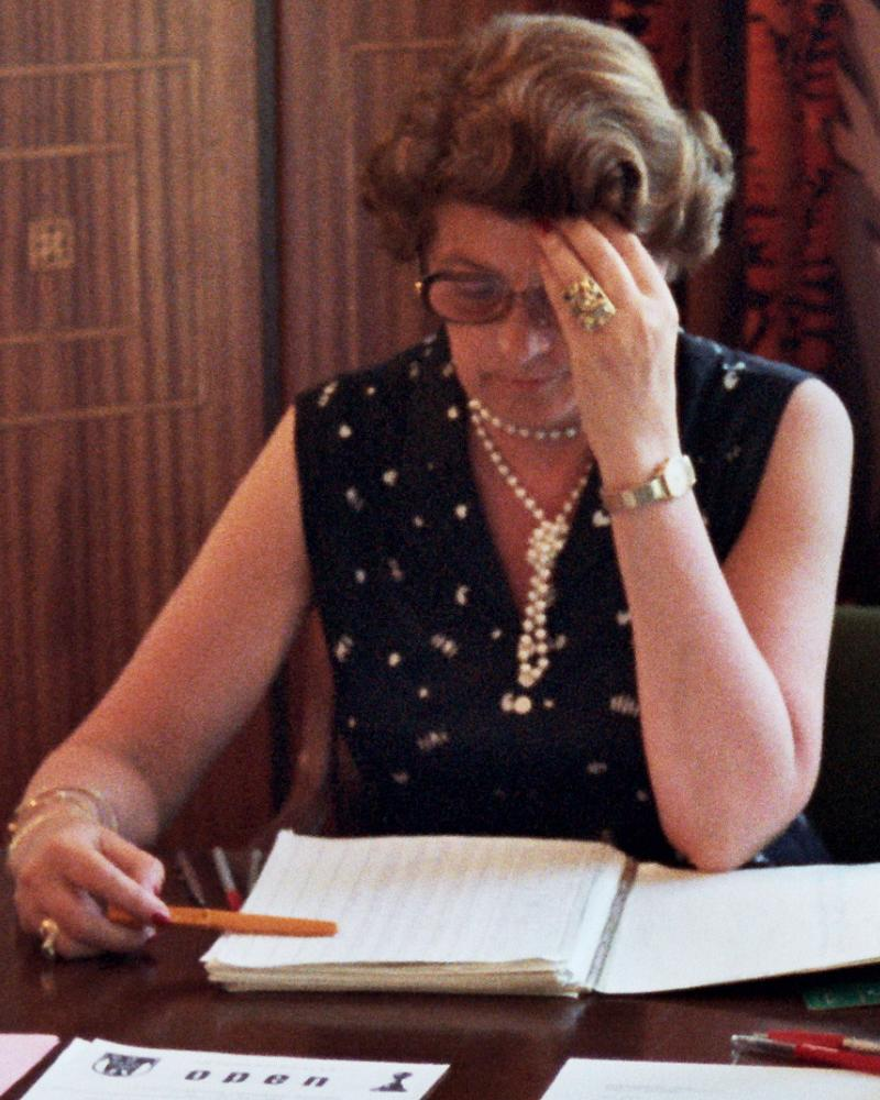 Gertrude Wagner, 1982 at the International Chess Tournament in Linz (Austria), Photographer Gerhard Hund.